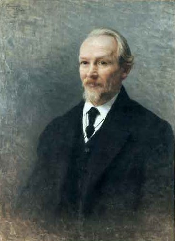 Portrait of Vasily Rosanov by Ivan Parkhomenko. 1909. Oil on canvas. The State Literary Museum